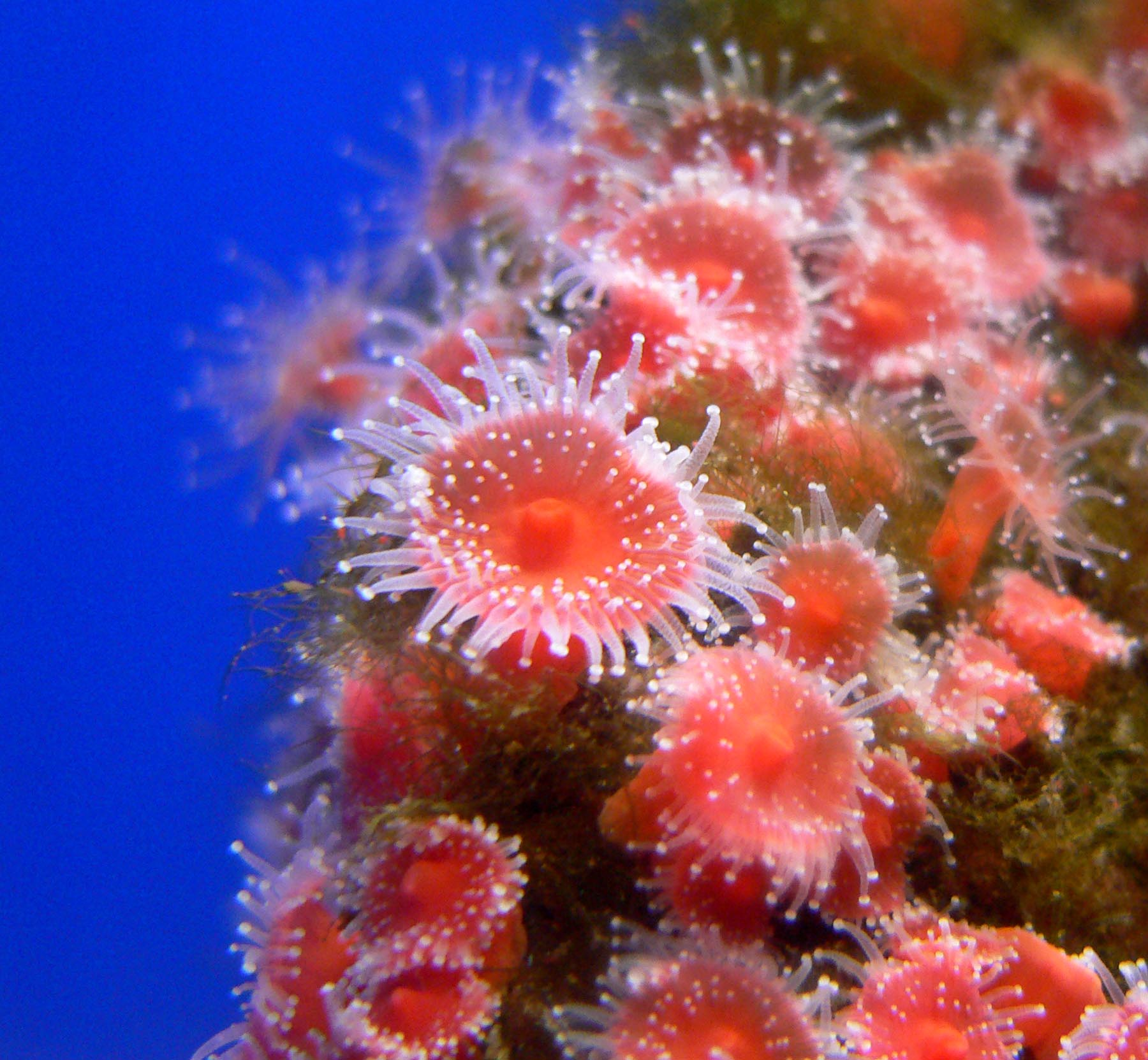 Photo of Corynactis californica at the Steinhart Aquarium in San Francisco